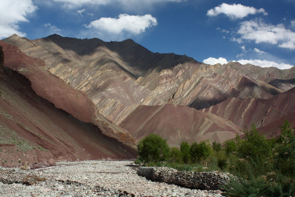 Sumdo Nala and Mountain range at Hemis National Park